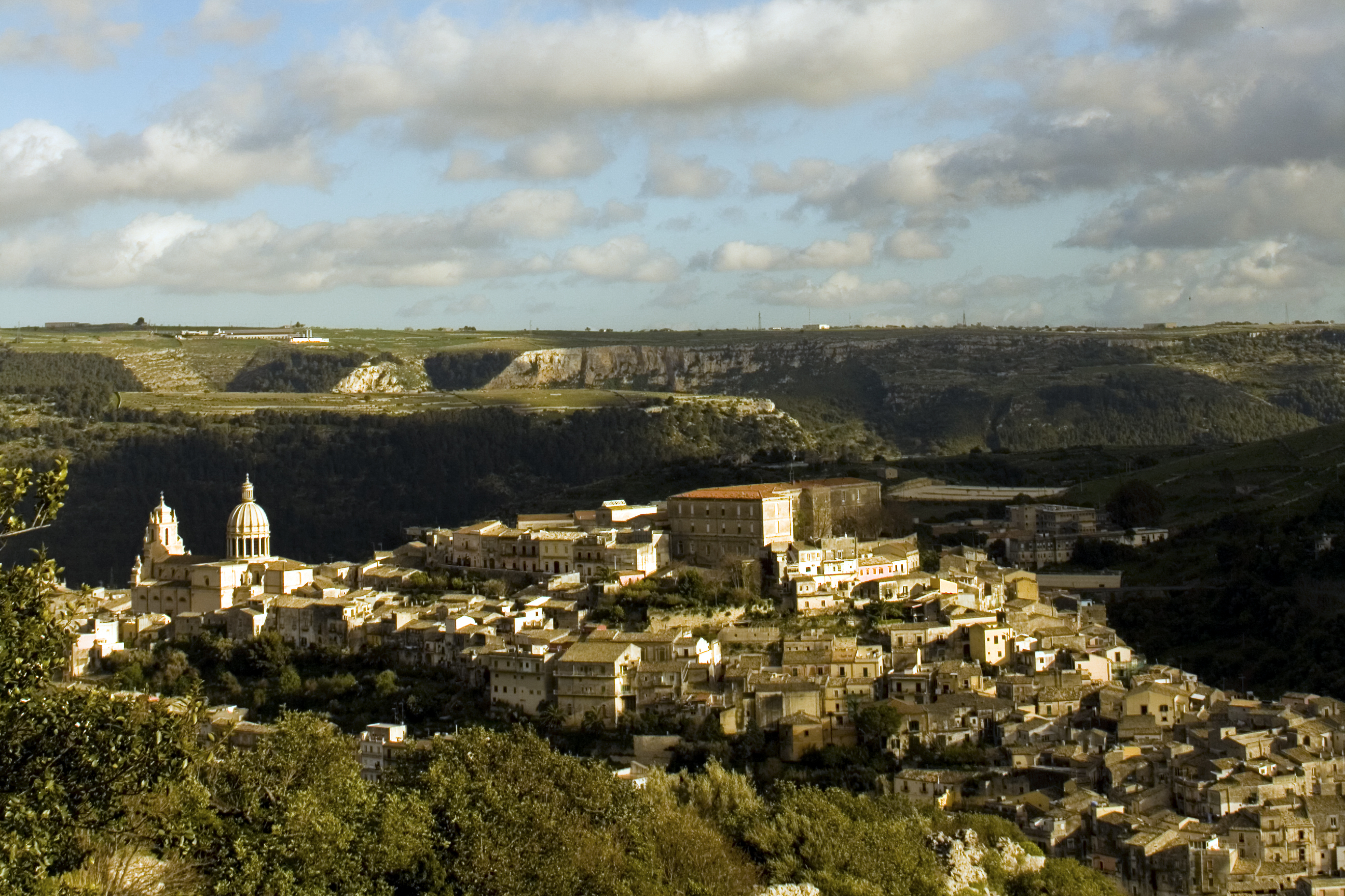 Ragusa Ibla - Sicily